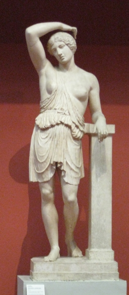 Wounded Amazon, after Polyclitus. Cast in Pushkin Museum, Moscow